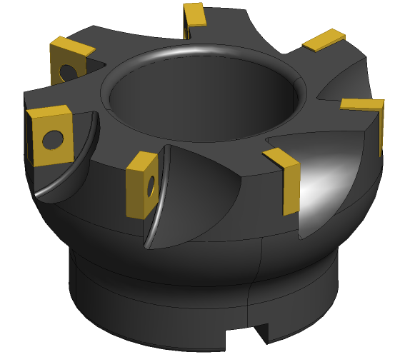 CAD Drawing of an indexable face mill